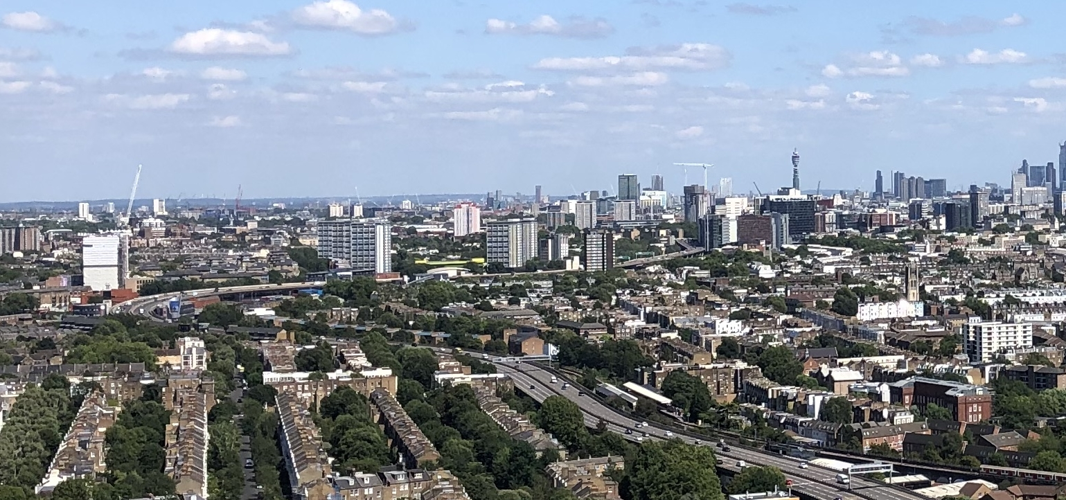 High angle view of the Westway elevated road threading its way through the streetscape of London from North Kensington to Paddington in the distance.